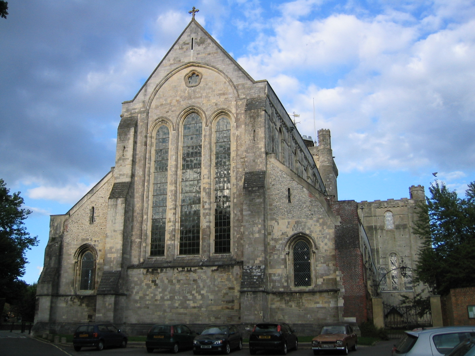 West end of Romsey Abbey, Hampshire